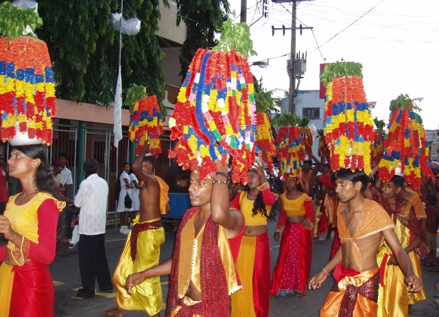 Dancers in Wesak Perahera May 2010, Dickwella, Southern Sri Lanka